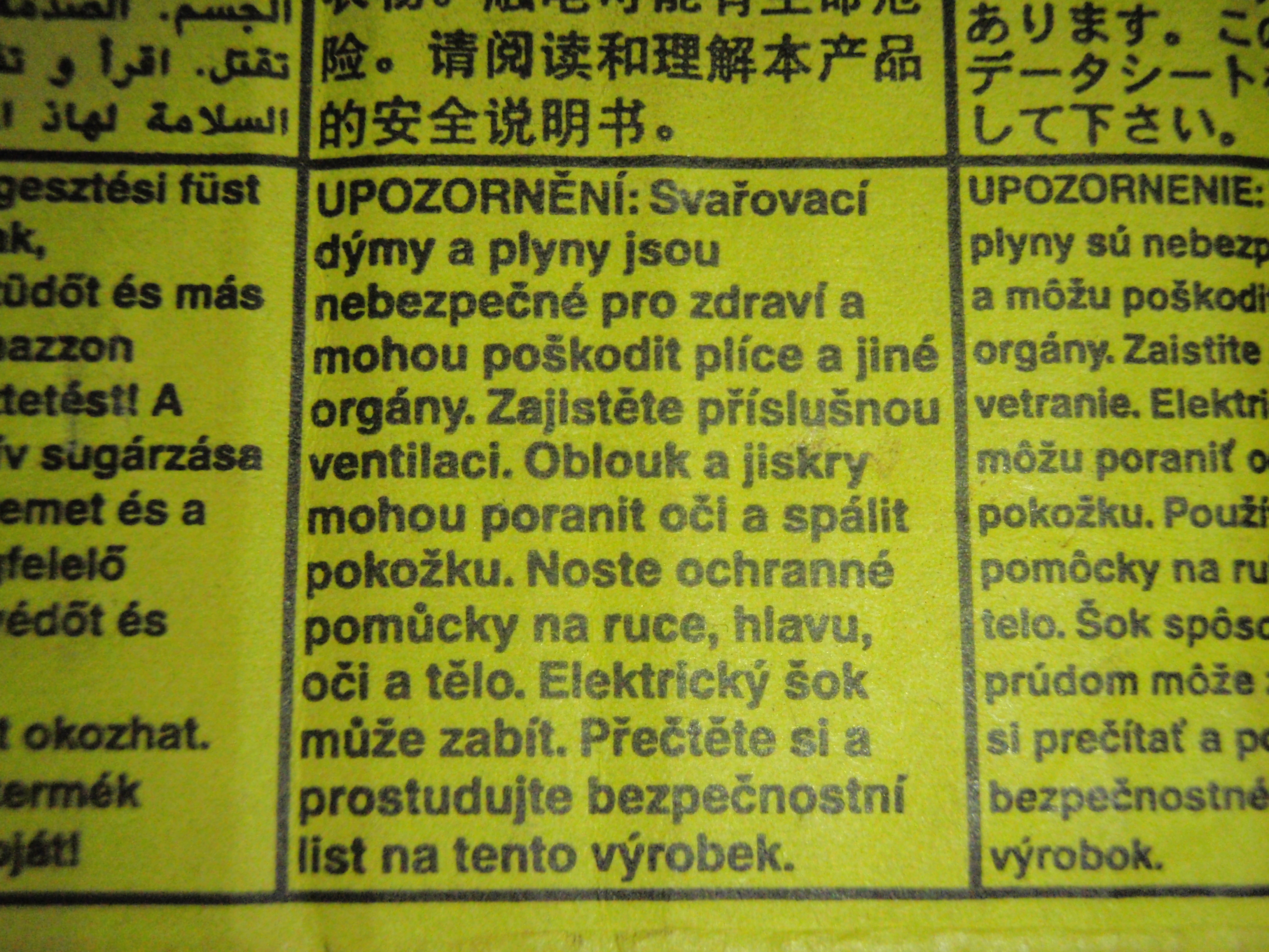 Note on the cover welding wire OK Autorod from ESAB